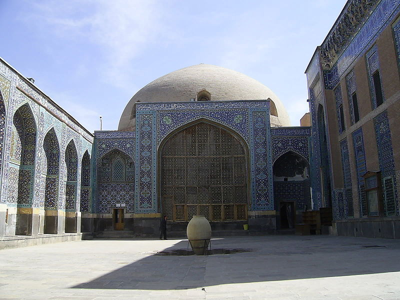 Courtyard and Iwan — Sheykh Safi's tomb